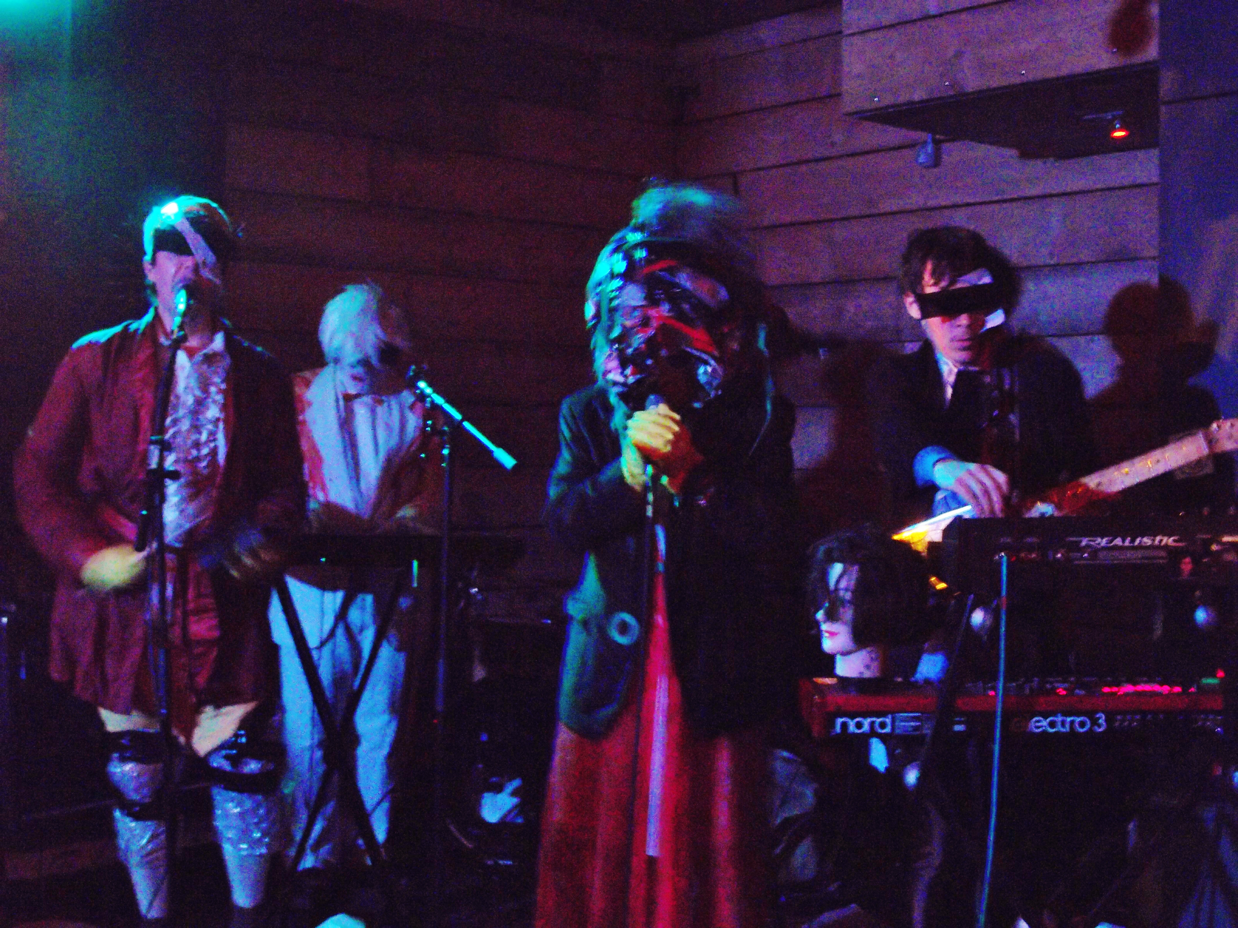 Gary Wilson (musician) and band performing in Bristol, May 2013